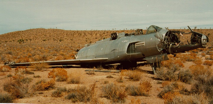 Lockheed XF-90 (46-688) in Yucca Flat. This XF-90, a Lockheed experimental aircraft, was exposed to the same nuclear tests as the Yucca Lady. The XF-90, of which only two were ever built, is the sole surviving example of Clarence (Kelly) Johnson's Lockheed Skunk Works second design. The first was the XP-80, which later went into production as the F-80 Shooting Star. The Skunk Works went on to design the U-2, SR-71 (Blackbird) and the F-117 Stealth fighter. Historically, the XF-90 boasts several significant features: it was one of the first to employ an ejection seat; it had a fully adjustable tail, and was the first to use fowler flaps to improve air flow over the ailerons. It was also the first to use wingtip drop tanks on sweptback wings, and the first to employ an afterburner. Today the broken aircraft rests in two parts in Plutonium Valley; its counterpart was destroyed during structural testing in Ohio. Plans call for the aircraft to be dismantled, decontaminated, and to be placed on display at the U.S. Air Force Museum, Wright-Patterson Air Force Base, Ohio.